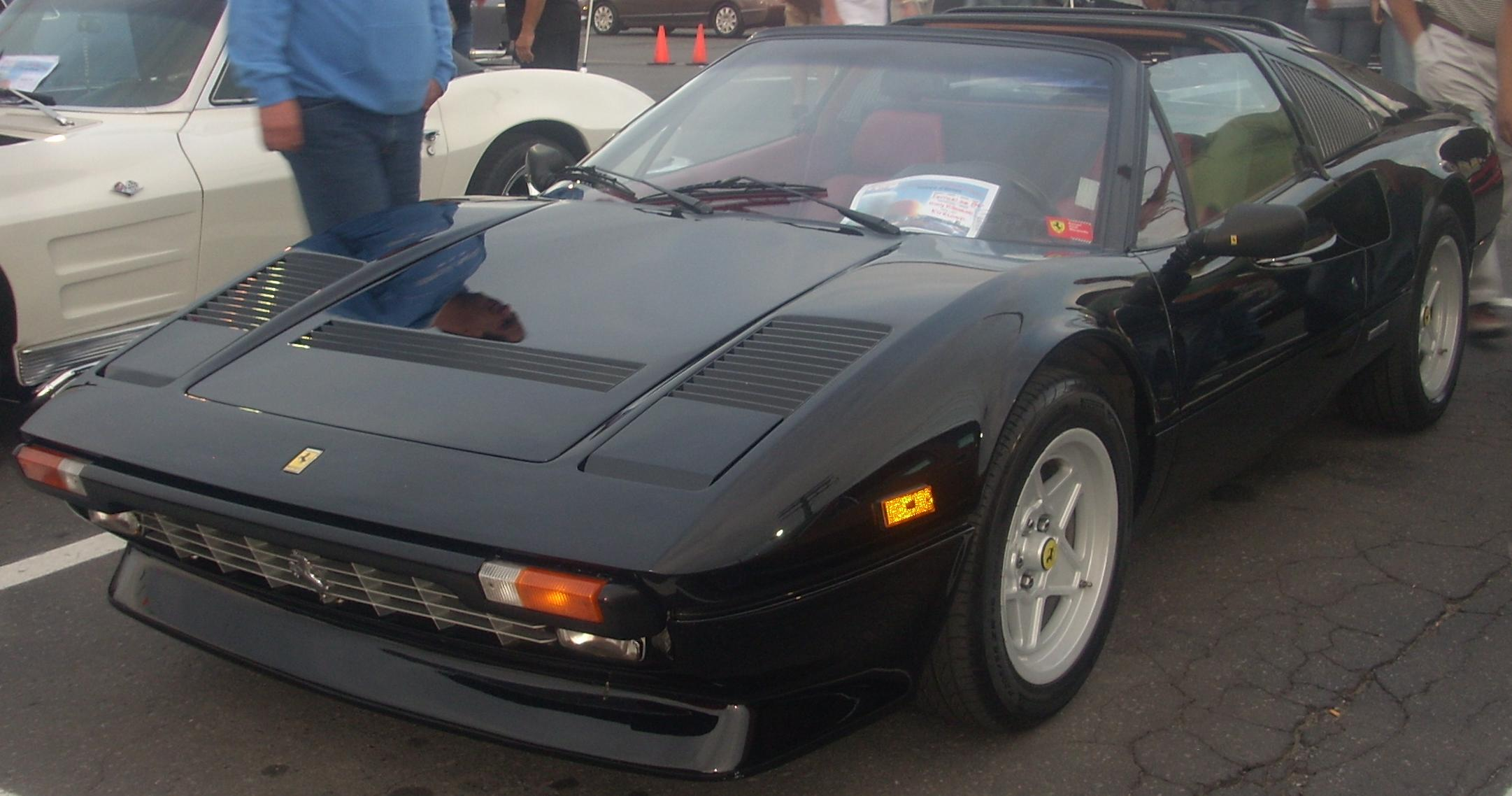 1984 Ferrari 308 GTS photographed in Montreal, Quebec, Canada at Gibeau Orange Julep.